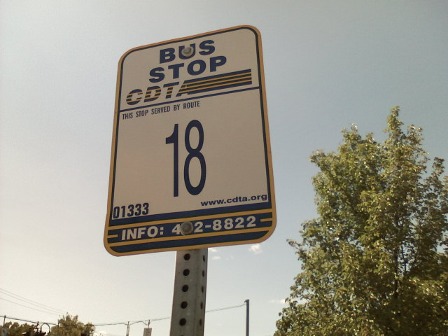 A bus stop sign outside Albany, NY.